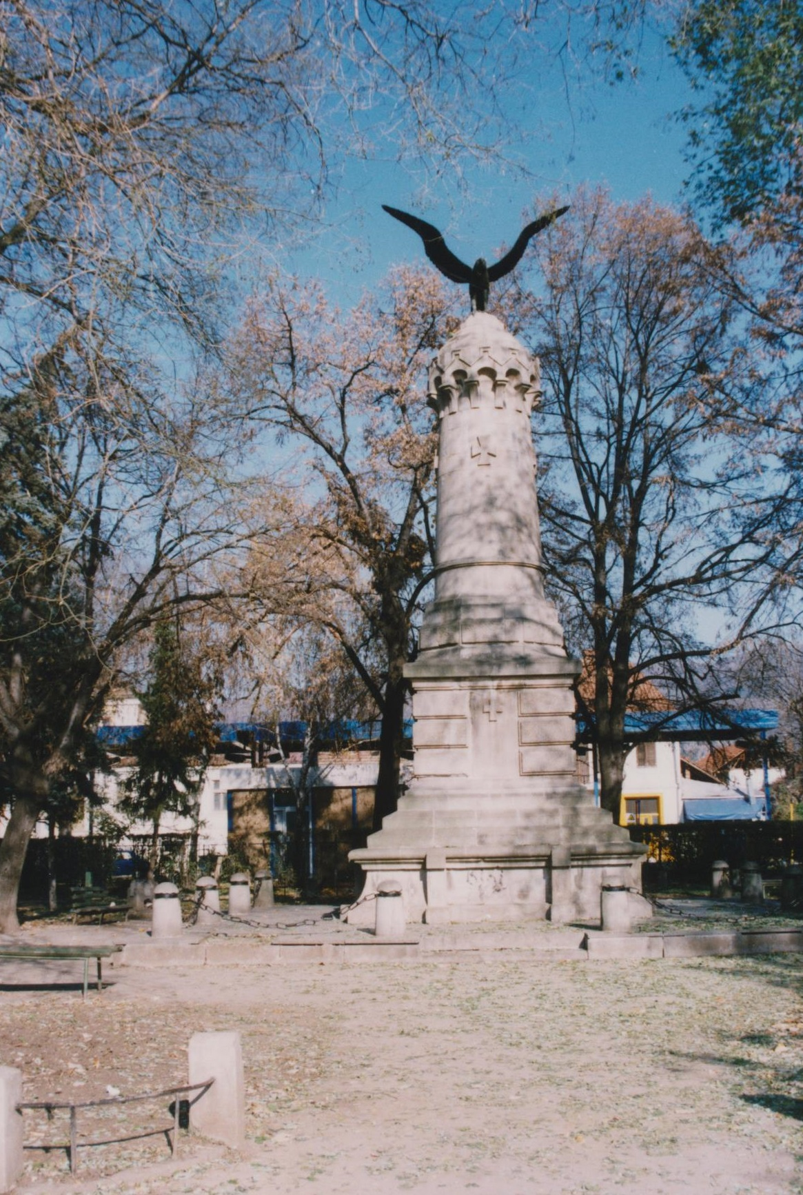 square of liberators of Pirot